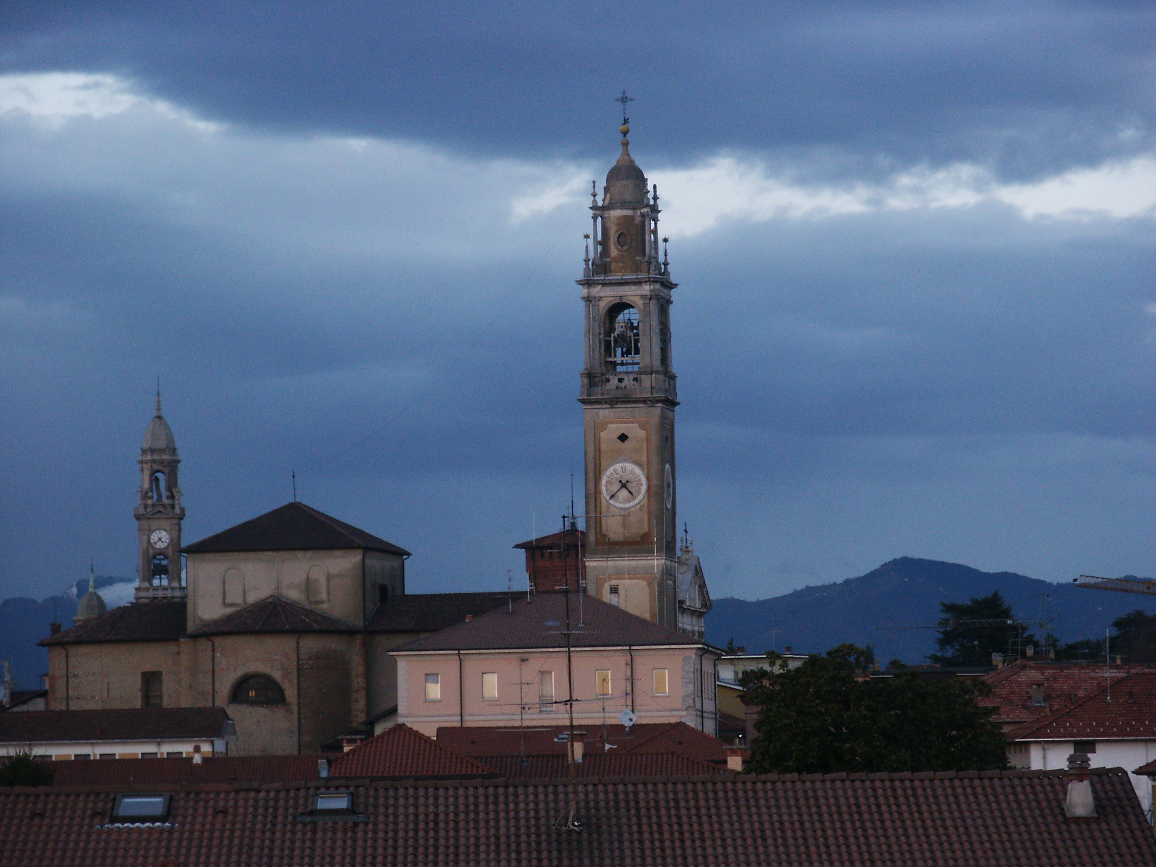 Landscape with the two churches of Lomazzo, Saint Syro e Saint Vito. City of Lomazzo, Province of Como, Bassa Comasca, Lombardy Region.